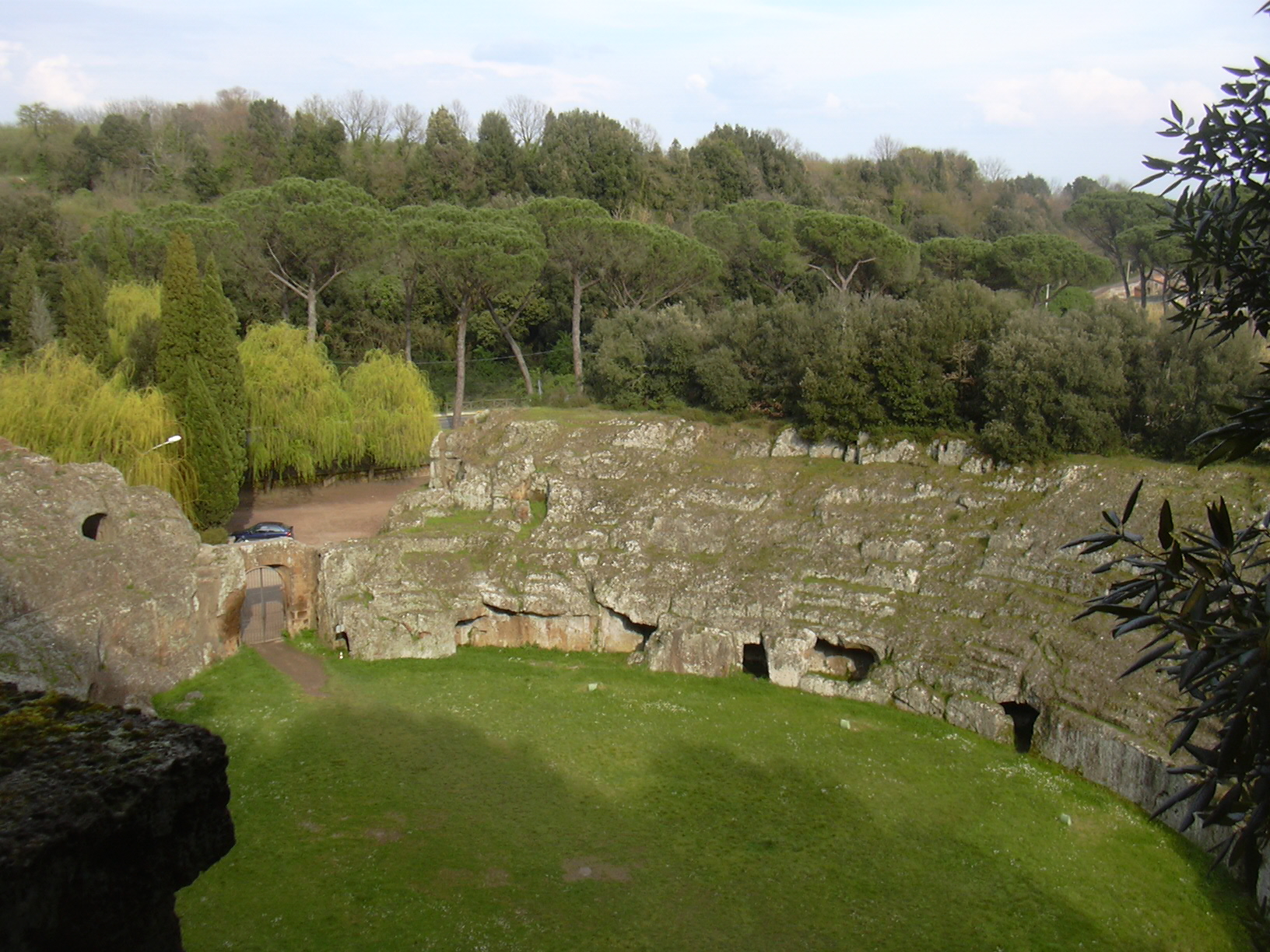 Sutri, amphitheatre, seen from the top of the hill (Villa Savonelli)